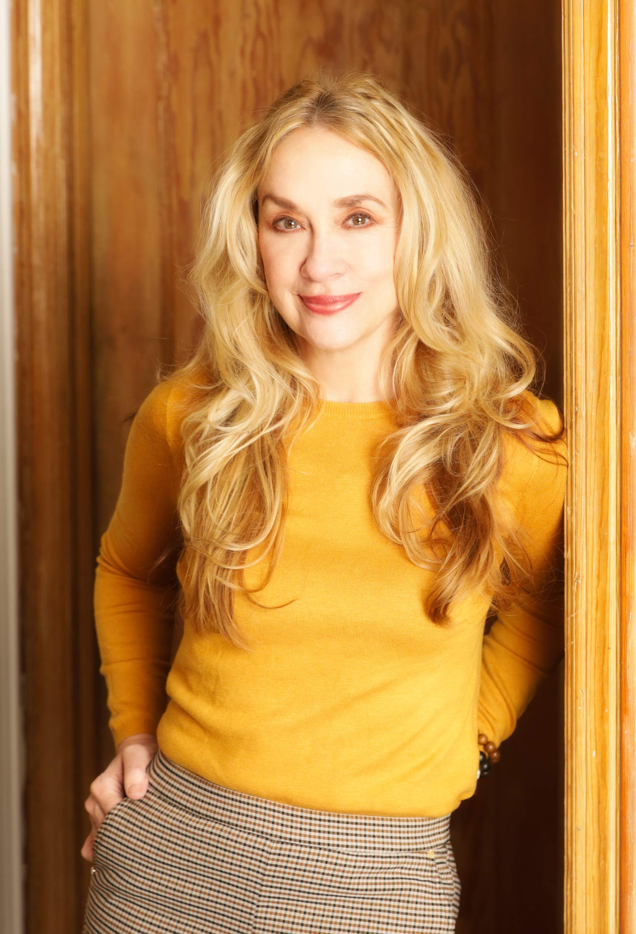 Tracey Shors's headshot in 2018.